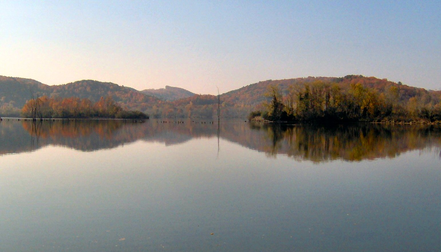 The mouth of Citico Creek (across the river on the left) along the Little Tennessee River in the Southeastern U.S. The ancient Cherokee village of Citico was located at the confluence of these two streams. According to Cherokee lore, the mythical battle between the Tluwanas and the Uktena occurred here.